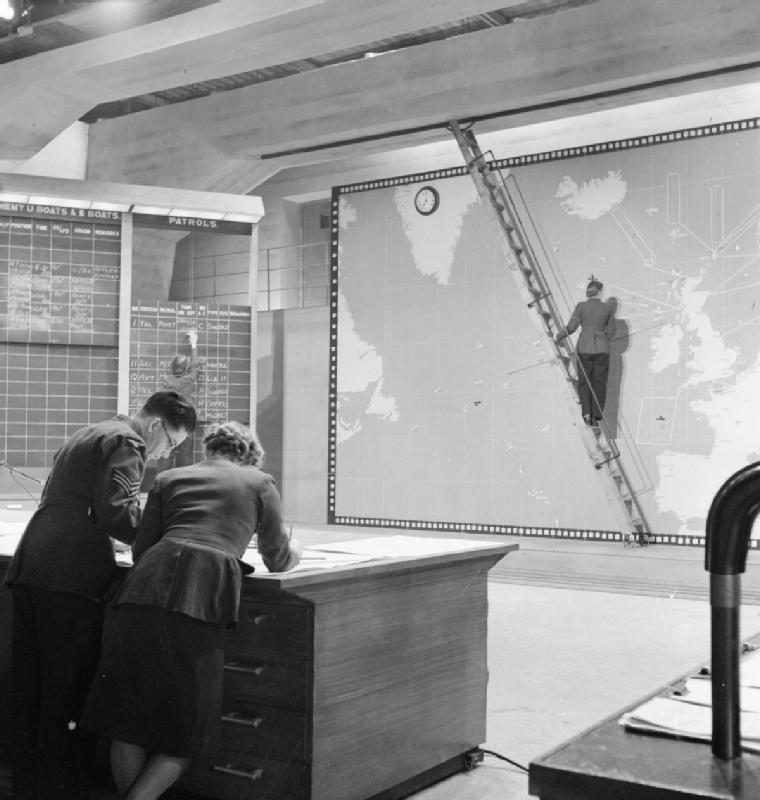 Coastal Command- the Production of a Ministry of Information Film at Pinewood Studios, Iver Heath, Buckinghamshire, England, UK, April 1942 In the Operations Room set constructed for the Ministry of Information film 'Coastal Command' at Pinewood Studios, Sergeant Holland (NCOIC Ops Room Clerk) discusses a point with Plotter Assistant Section Officer Bewkey. To the right of the photograph, the WAAF Ops Room Clerk, Corporal Tomkinson, can be seen on a ladder, marking something on the large wall map. To the left, Aircraftwoman Tarrant, Ops Room Clerk is just visible at the chalkboard recording patrols.